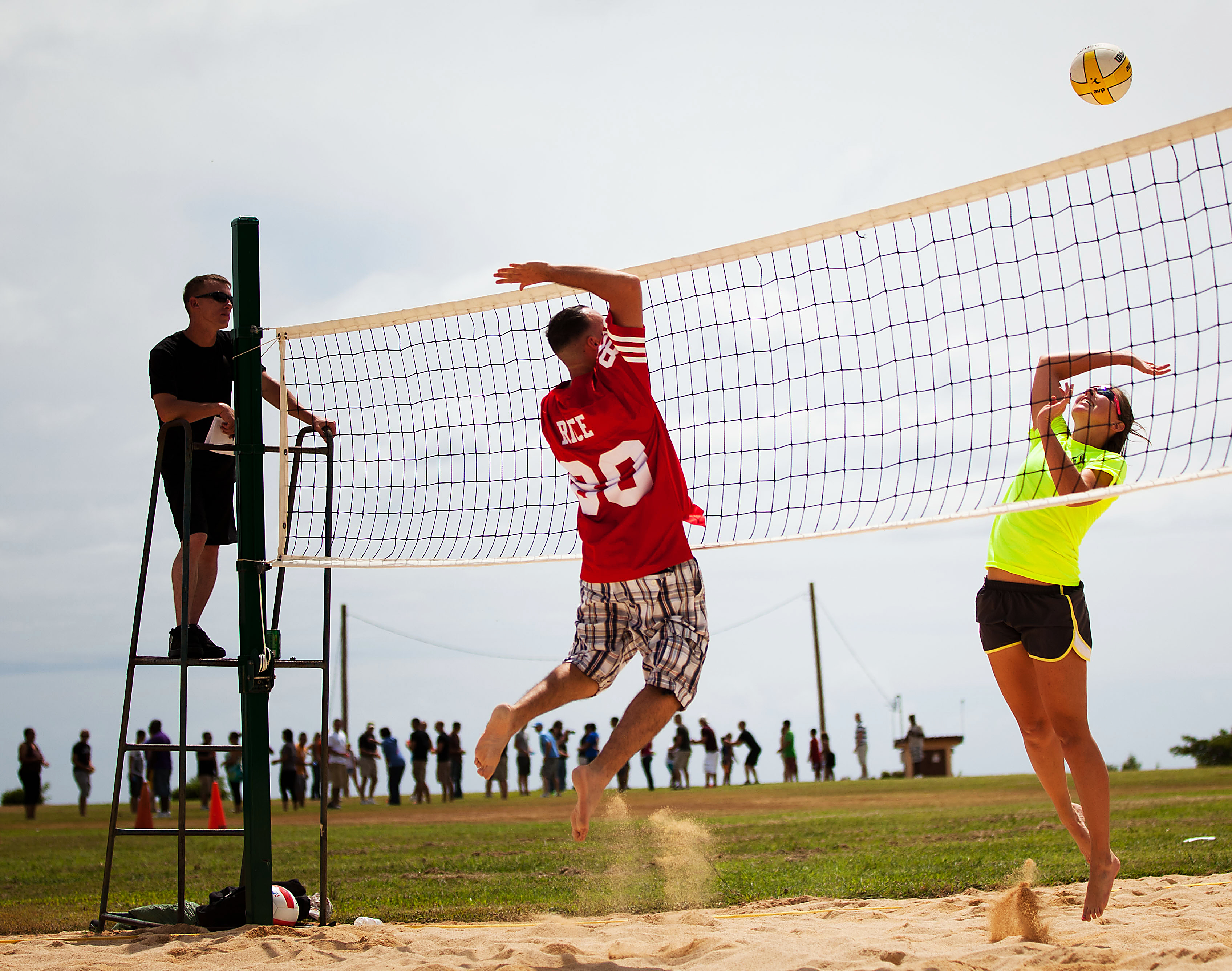 1st Lt. Kerry Friedewald (right), adjutant, Headquarters and Service Battalion, U.S. Marine Corps Forces, Pacific, plays volleyball at the Bordelon Bash held at Bordelon Field here Oct. 7. Friedewald, along with Sgt. Maj. Scott M. Smith, HqSvcBn sergeant major, Maj. Jan-Hendrick C. Zurlippe, officer-in-charge of the comptroller section, HqSvcBn, were overall champions for the volleyball tournament.